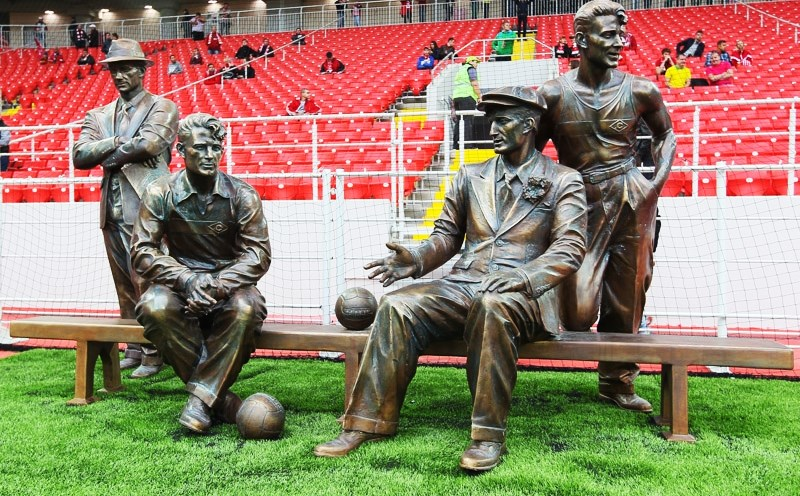 Otkrytie Arena